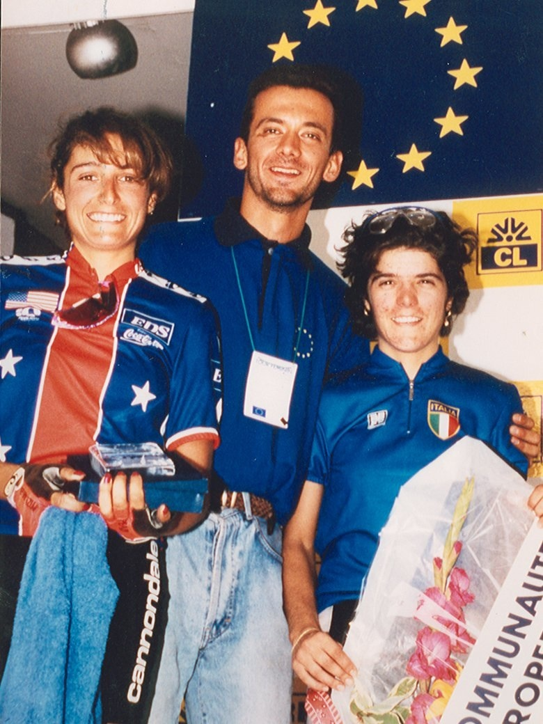 Laura Charameda, Marco Pino, Michela Fanini - 7th stage tour de la CEE, Charleville Mezieres, france 1993